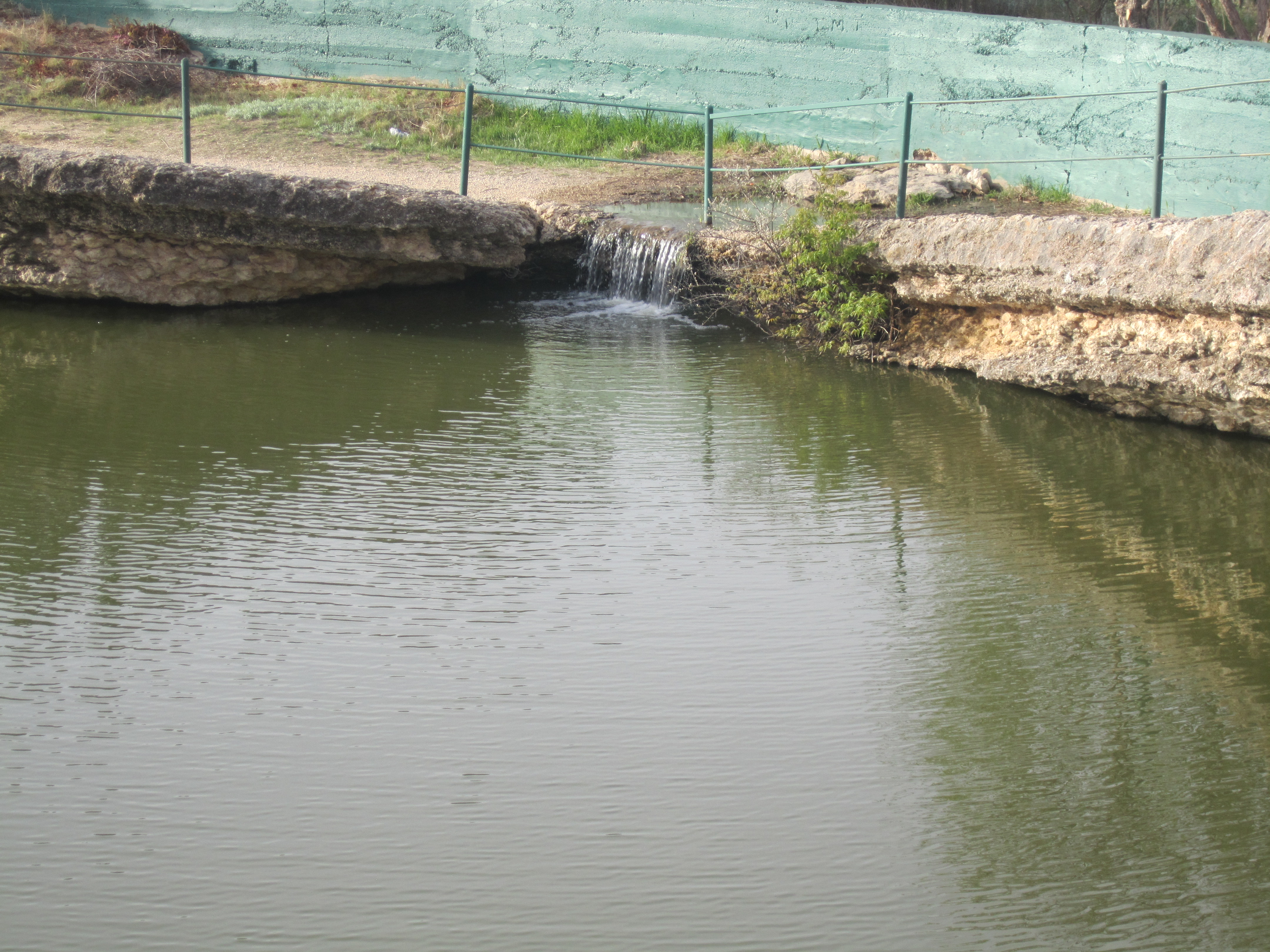 I took photo with Canon camera in Big Spring, TX.